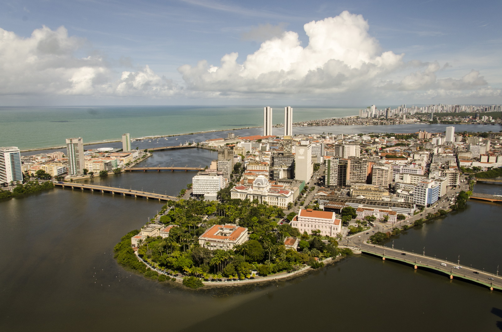 Antonio Vaz island - Recife, Pernambuco, Brazil